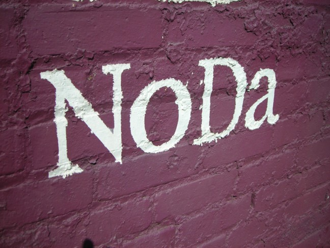 NoDa painted on a wall